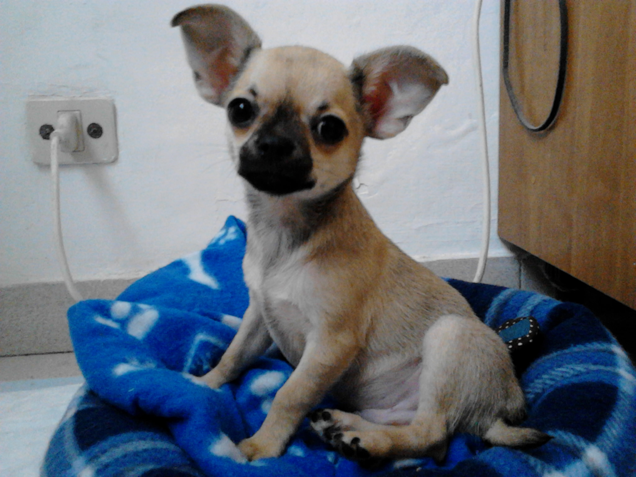 Baby Chihuahua